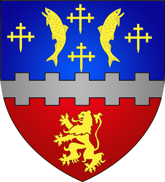 Coat of arms of the municipality of Pétange, Luxembourg